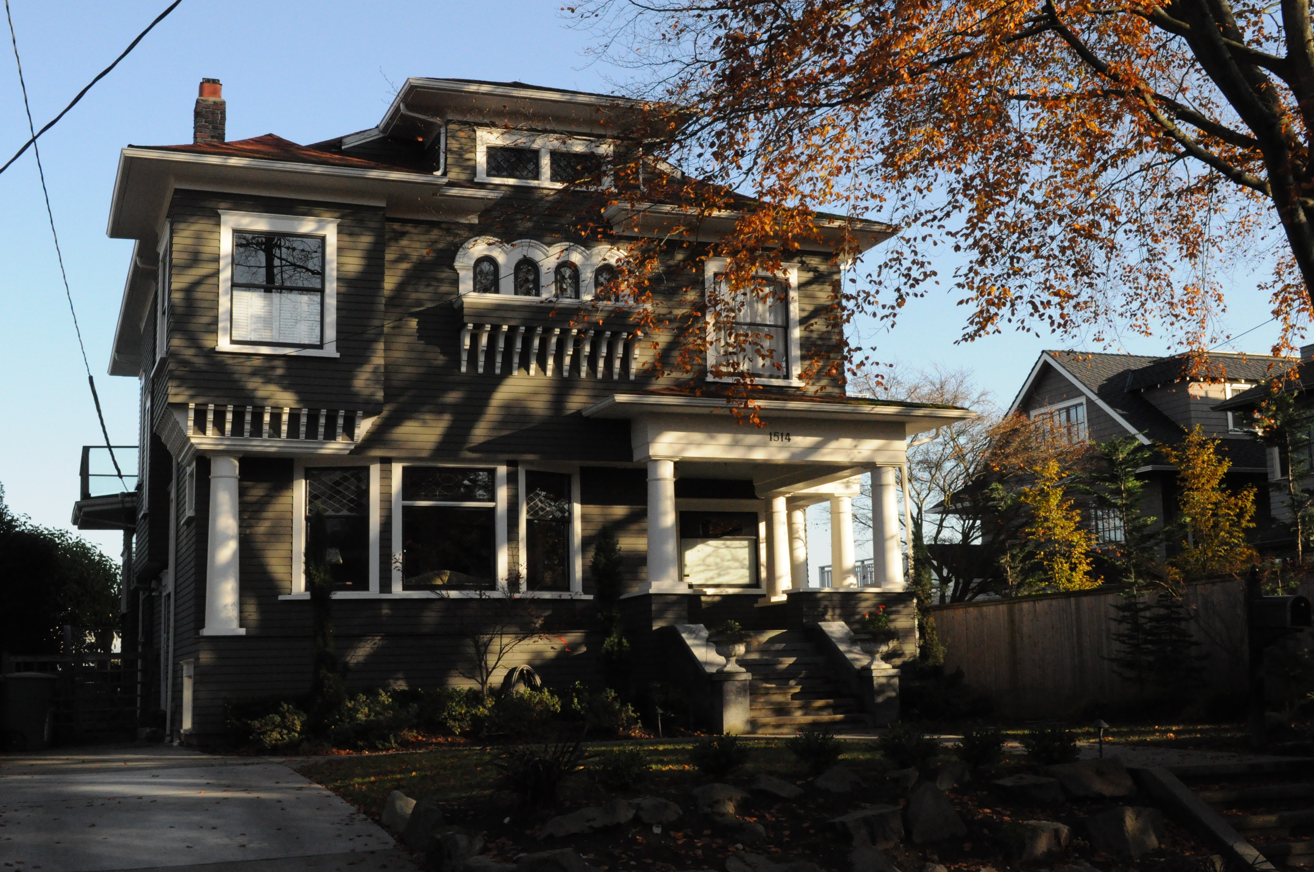 1514 Fourth Avenue N, Queen Anne Hill, Seattle, Washington.